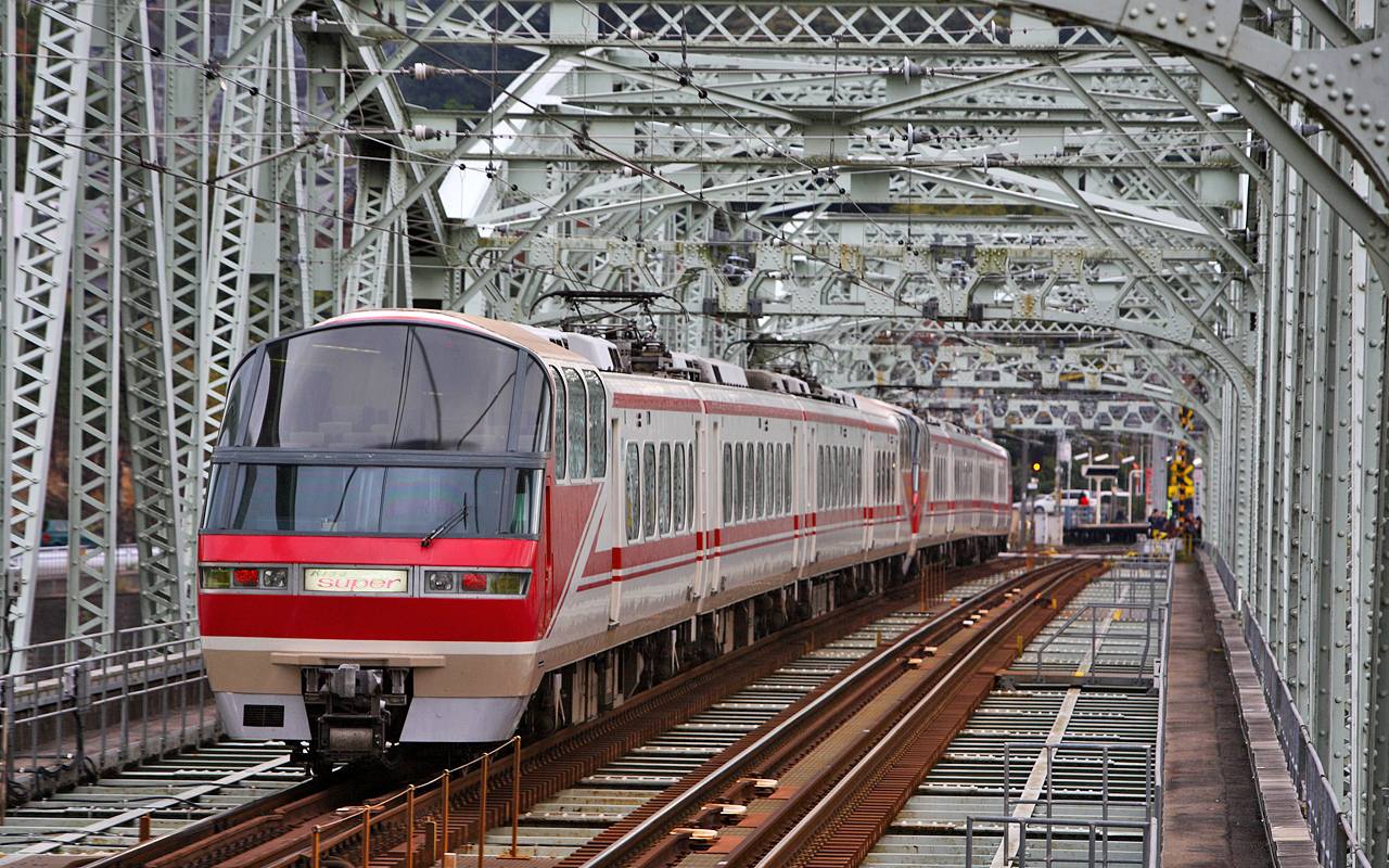 Meitetsu 1000 series EMU in Inuyama Bridge ( 1010F + 10??F, between Shin Unuma Stn. and Inuyama Yuen Stn. )